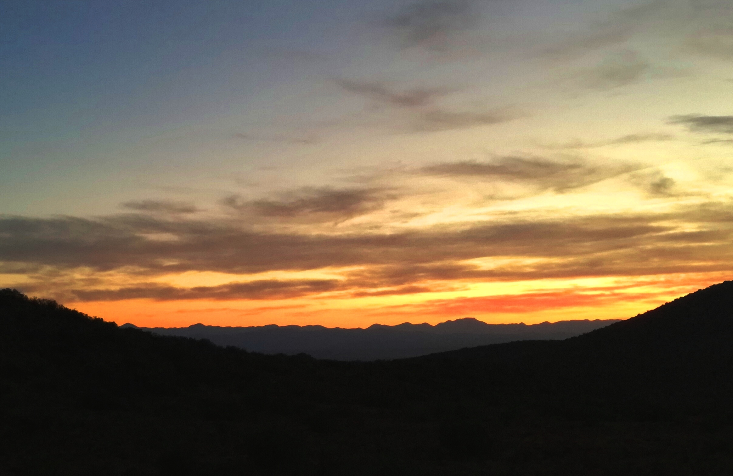 Sunrise as seen from balcony of holiday cabin in Gamkaberg Nature Reserve